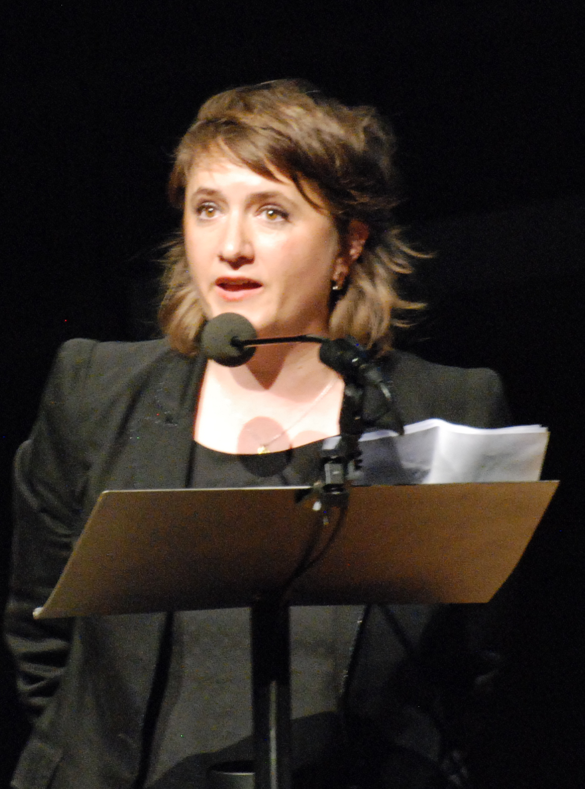 Award ceremony of the Astrid Lindgren Memorial Award 2010: Kitty Crowthers speech of thanks